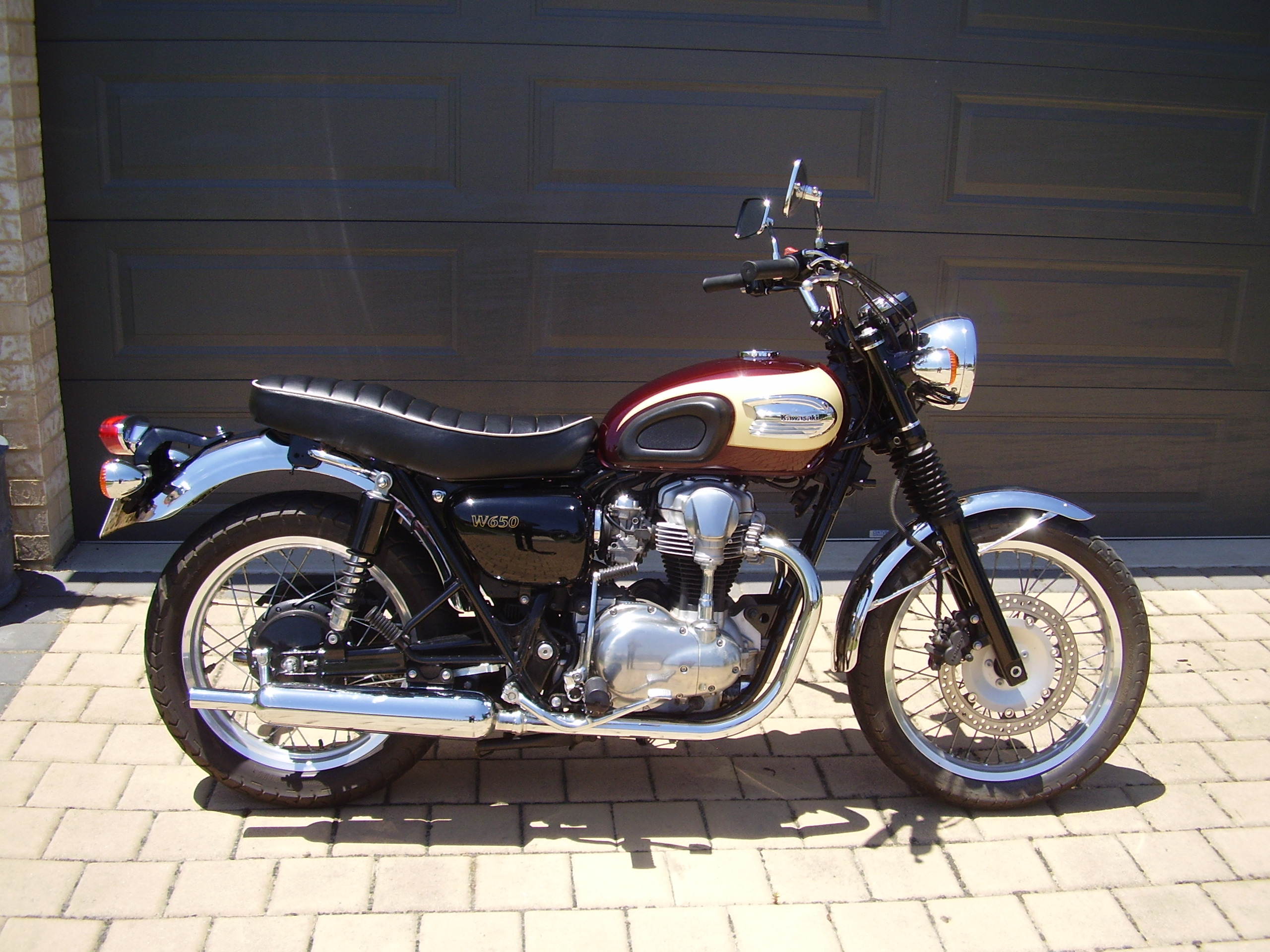 Kawasaki W650 2000 Albany Western Australia